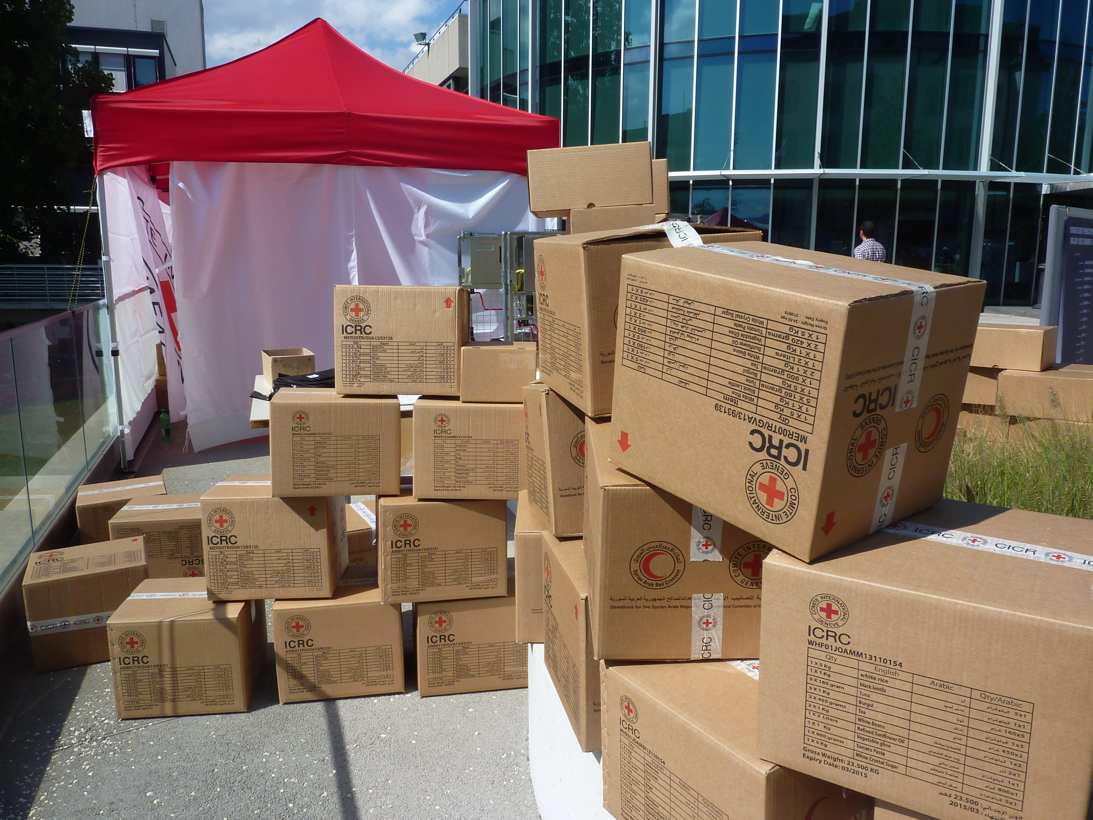 Open day at the International Committee of the Red Cross for its150th anniversary.